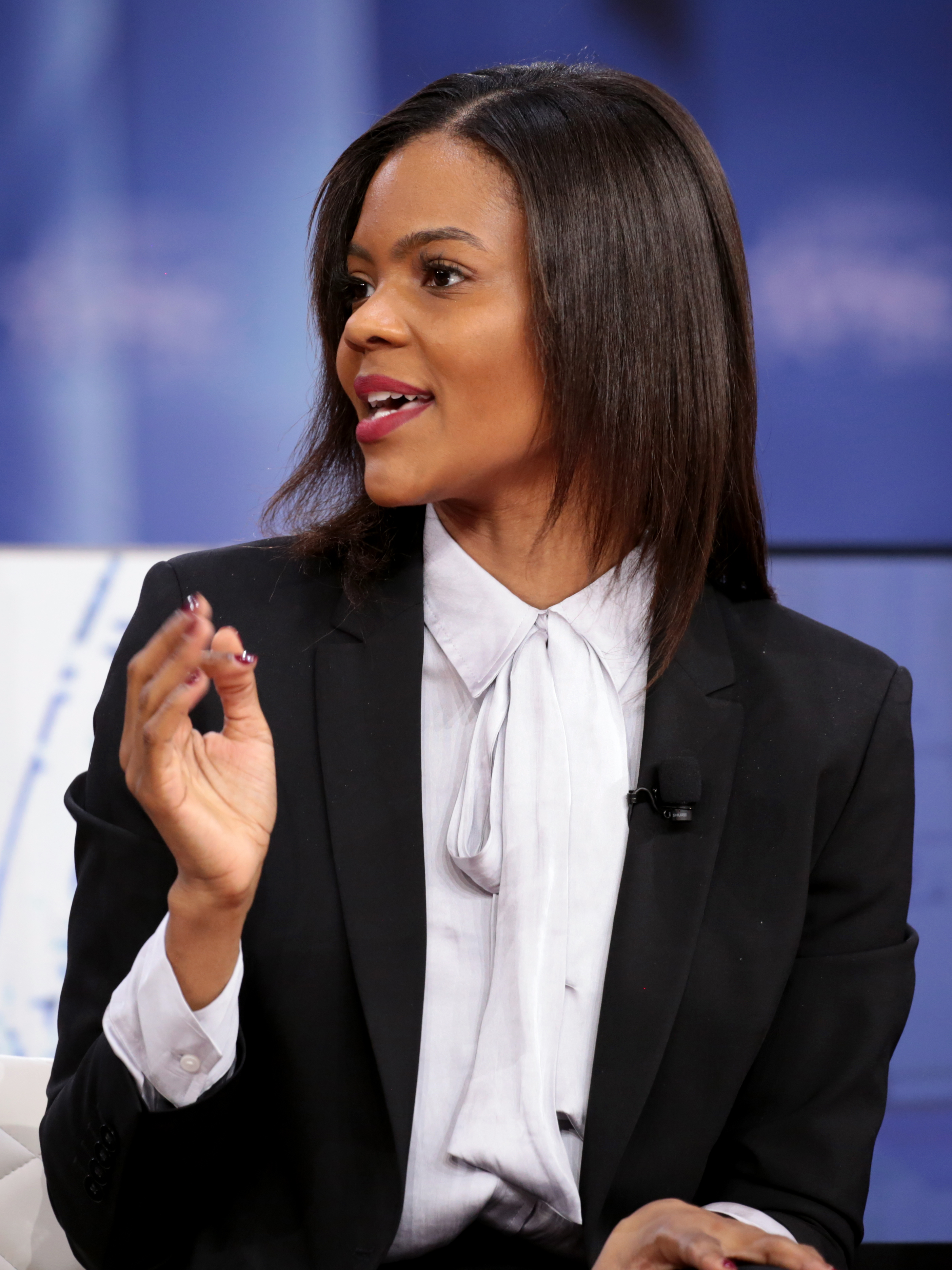 Candace Owens speaking at the 2018 CPAC in National Harbor, Maryland.